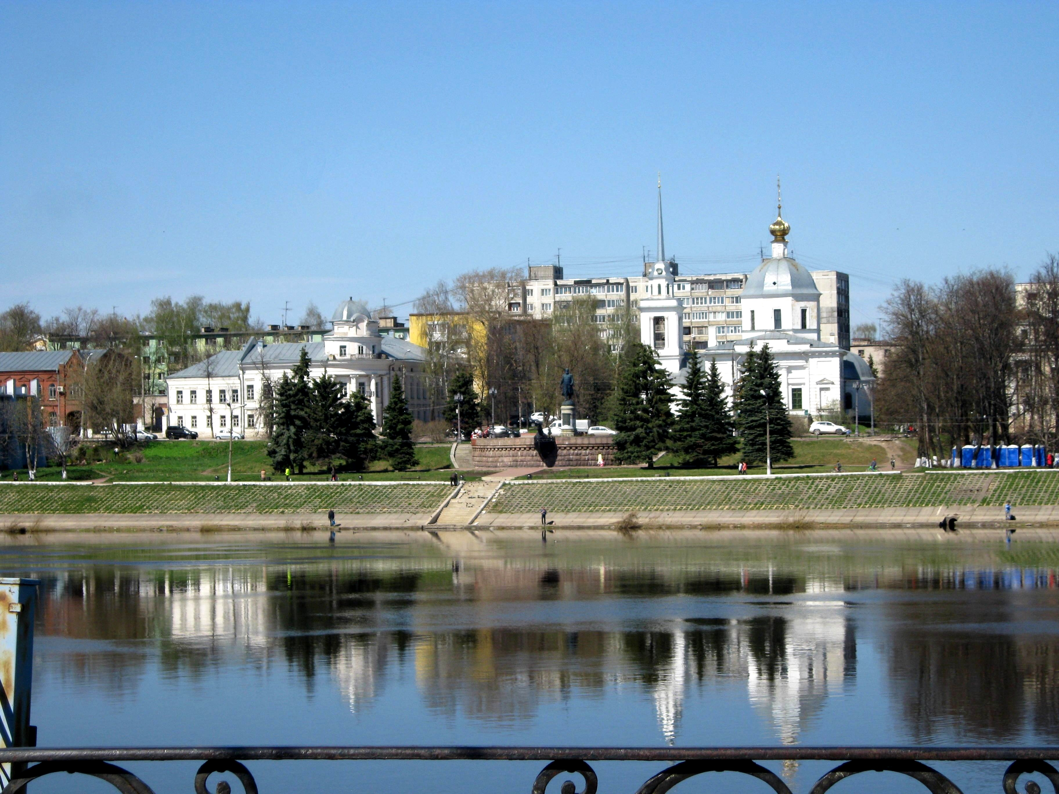 Вид на набережную Афанасия Никитина (Тверь)